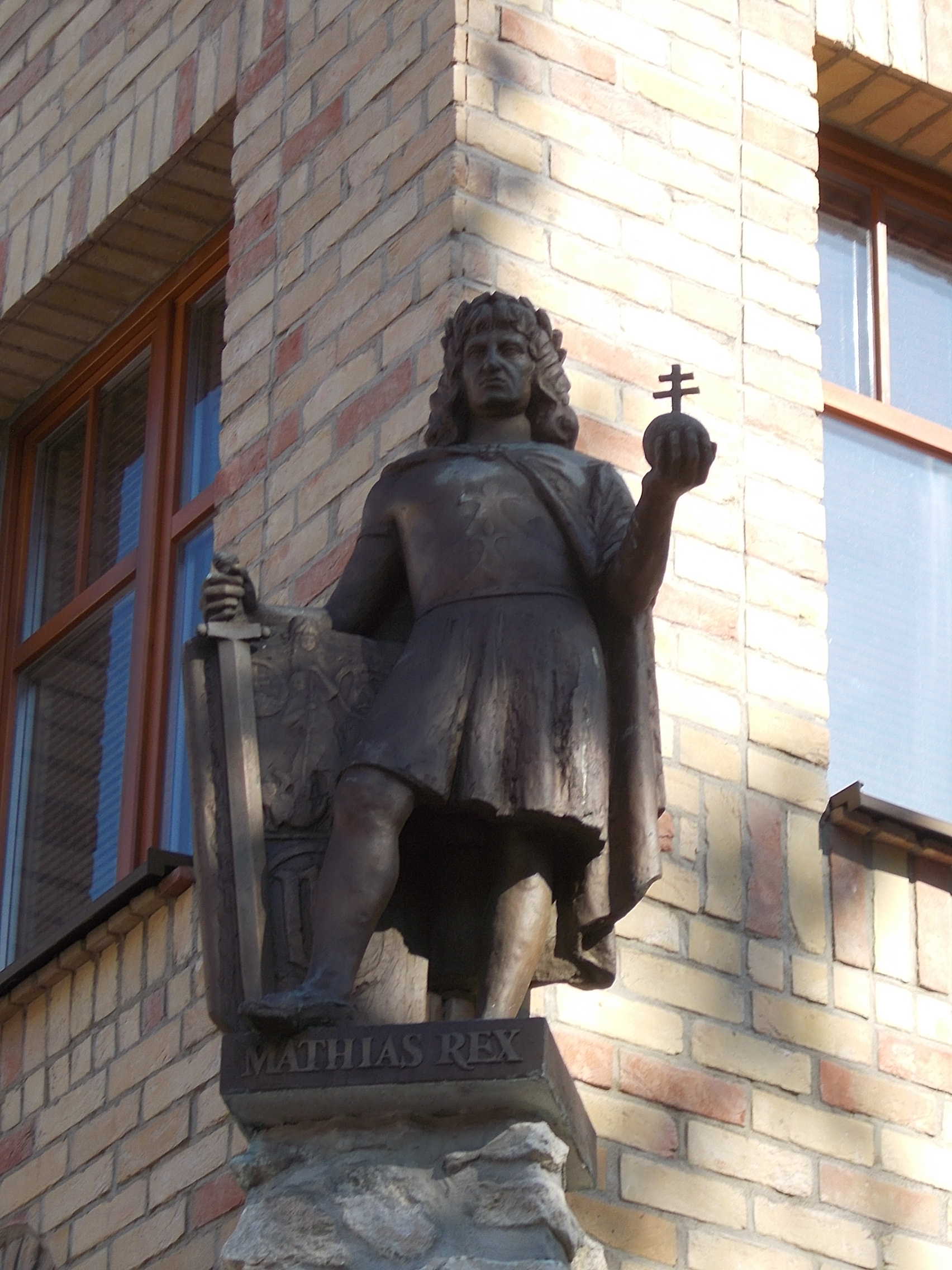 Statue of Matthias Corvinus by Emőke Szilva (2003) at Hunyadi tower of the Europe Place, Komárno, Slovakia.